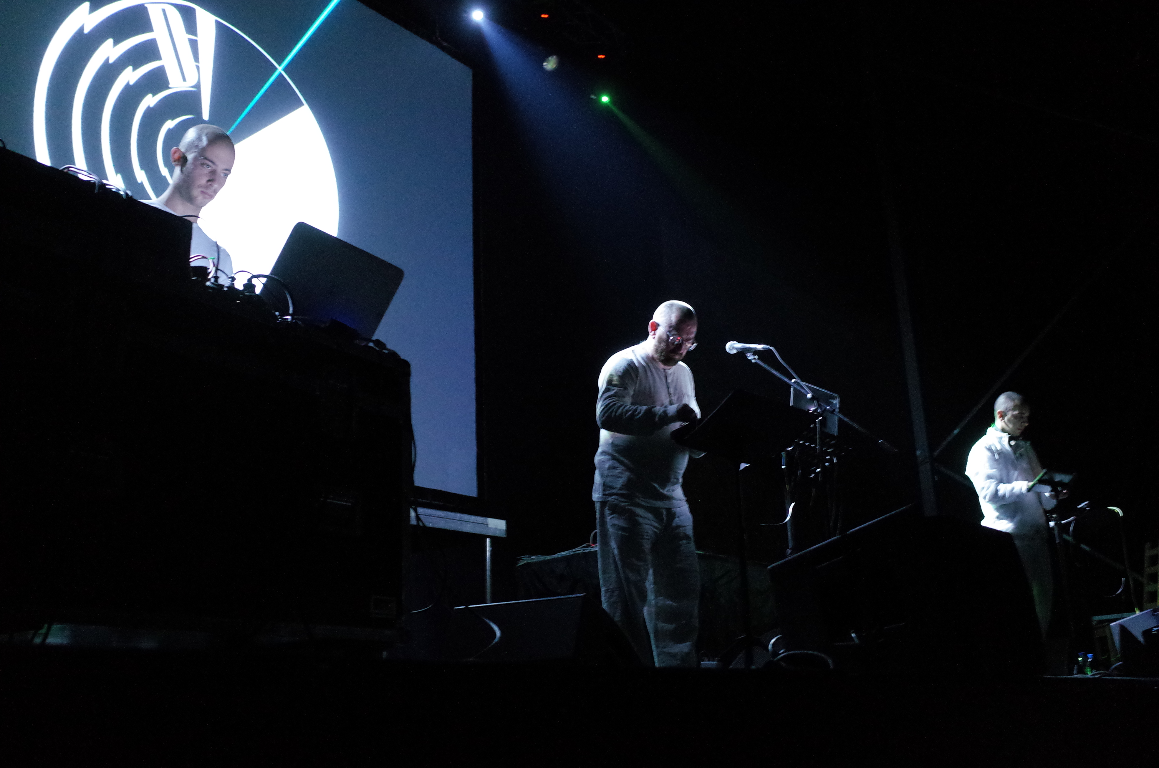 Clock DVA performing in Moscow, Russia. 23 November 2014.